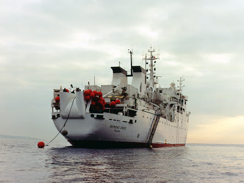 The french cableship "Raymond Croze" front of La Seyne sur Mer in 1993.